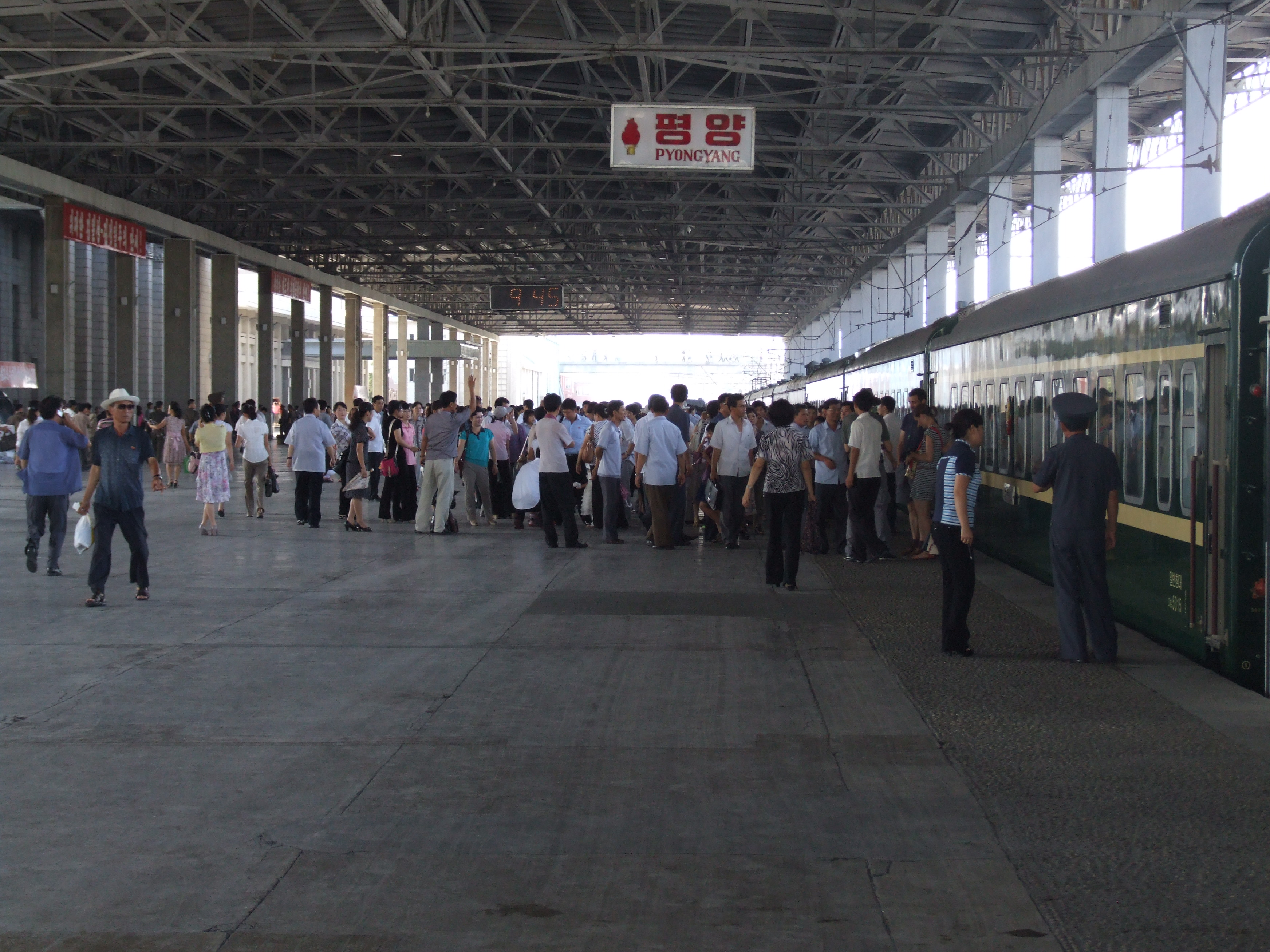 Platform at Pyongyang Station